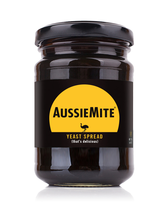 AussieMite is a vegan, gluten-free savoury spread and a known source of B Vitamins, Iron and Vitamin B12. Packaged using 100% recyclable materials.